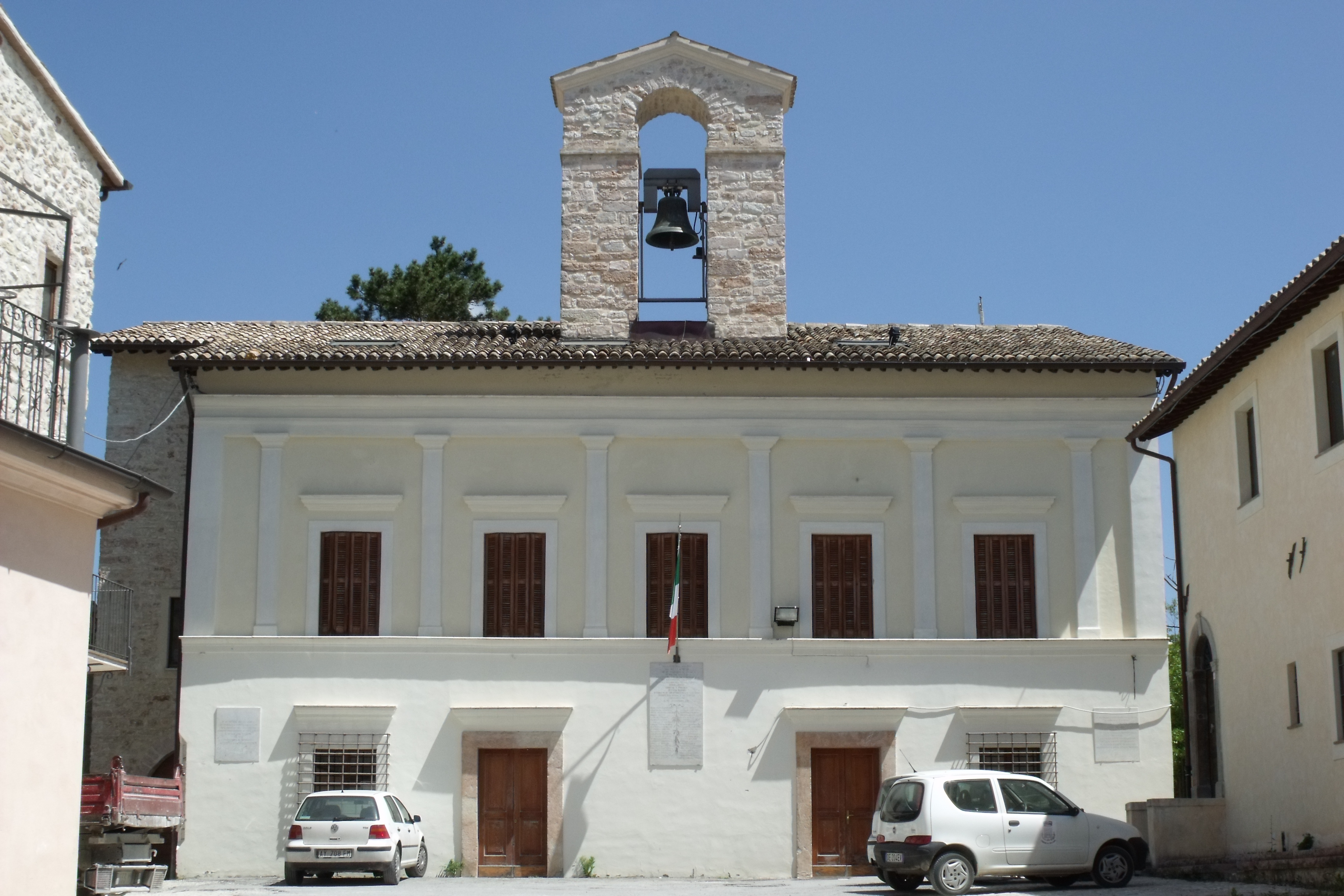 Town hall of Sellano, Province of Perugia, Umbria, Italy